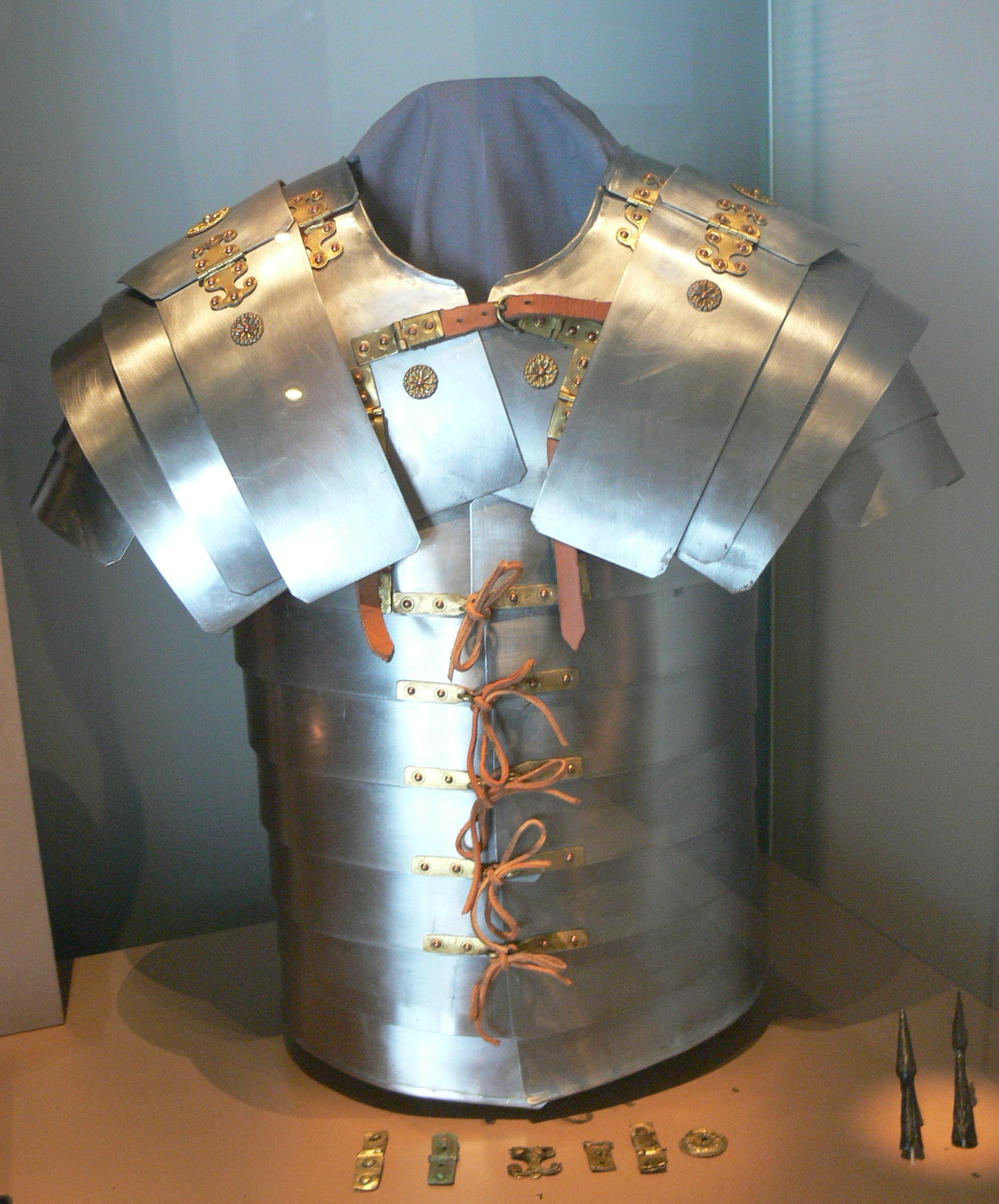 Celtic Museum Manching ( Bavaria ). Reconstruction of an ancient Roman lorica segmentata, Corbridge type 'A'.